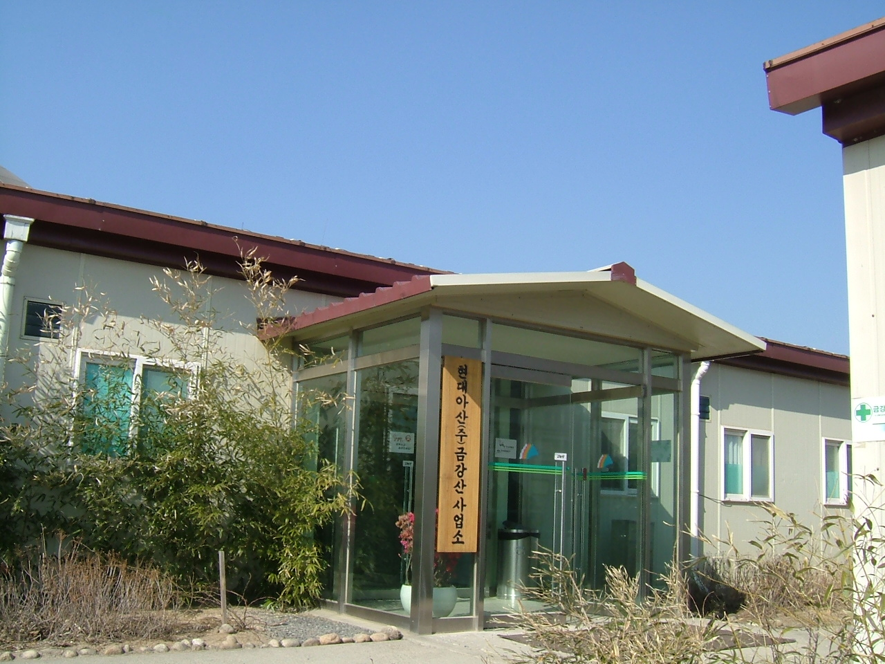 Hyundai-asan Kumgangsan branch